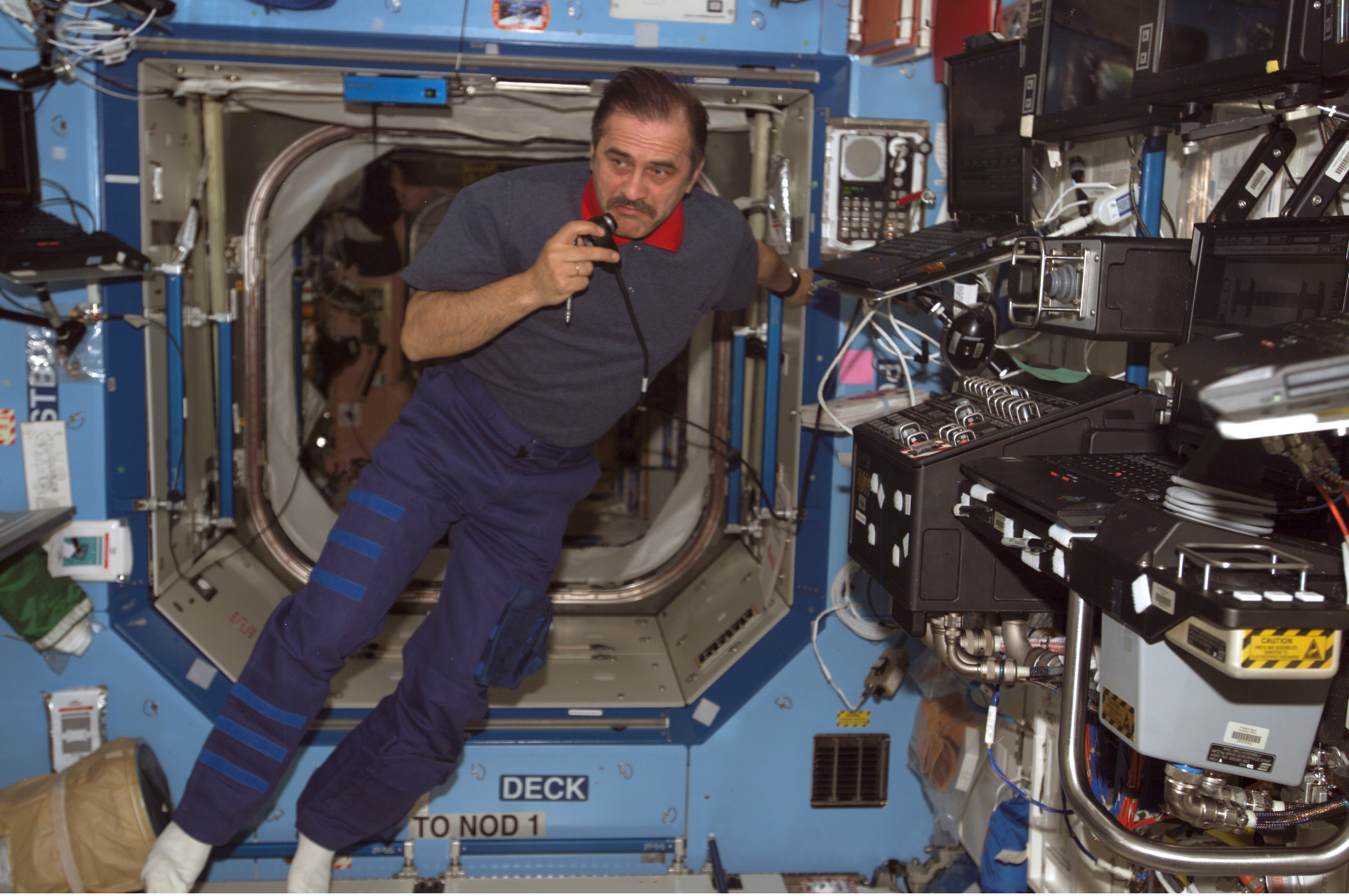 Cosmonaut Pavel V. Vinogradov, Expedition 13 commander representing Russia's Federal Space Agency, uses a communication system in the Destiny laboratory of the International Space Station